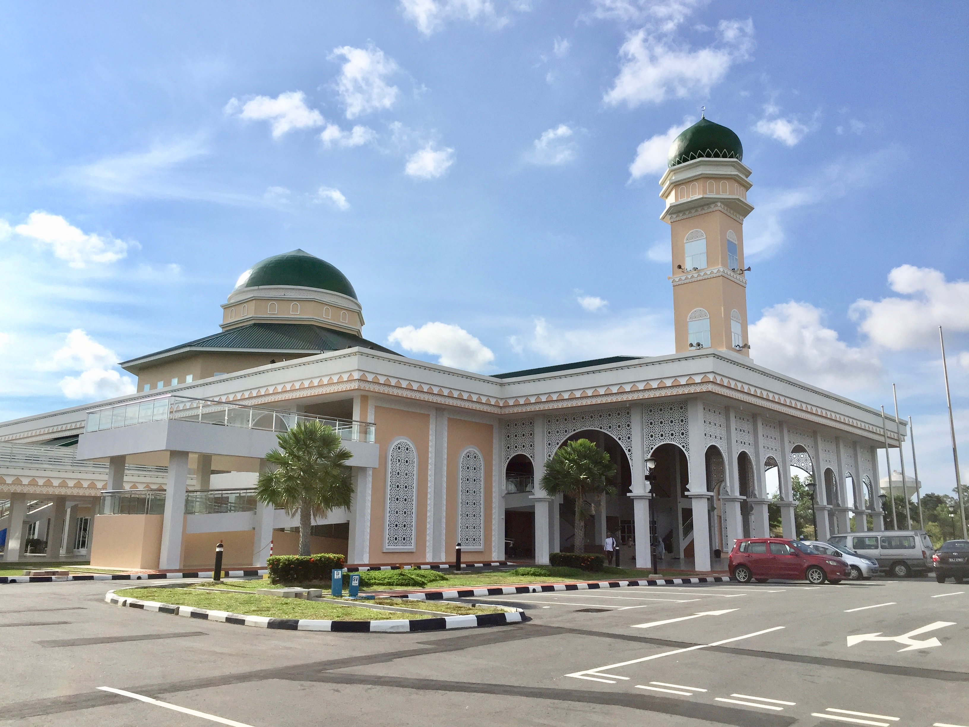 Mosque in Mentiri National Housing Scheme in Brunei-Muara District, Brunei